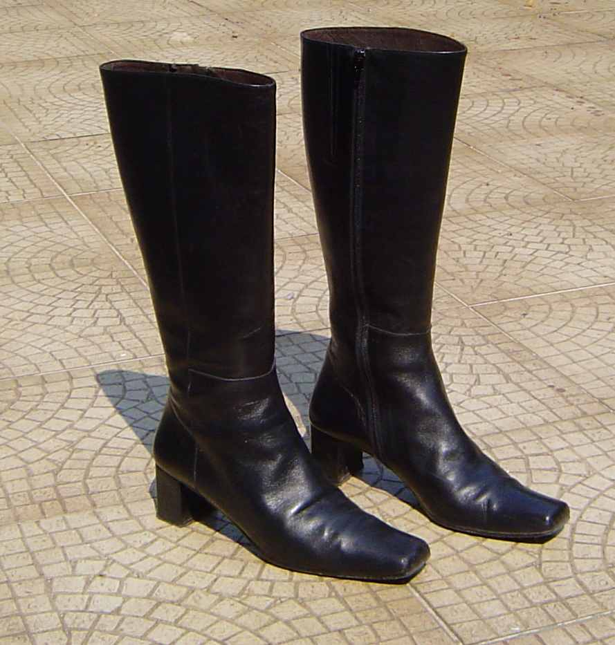 Boots.